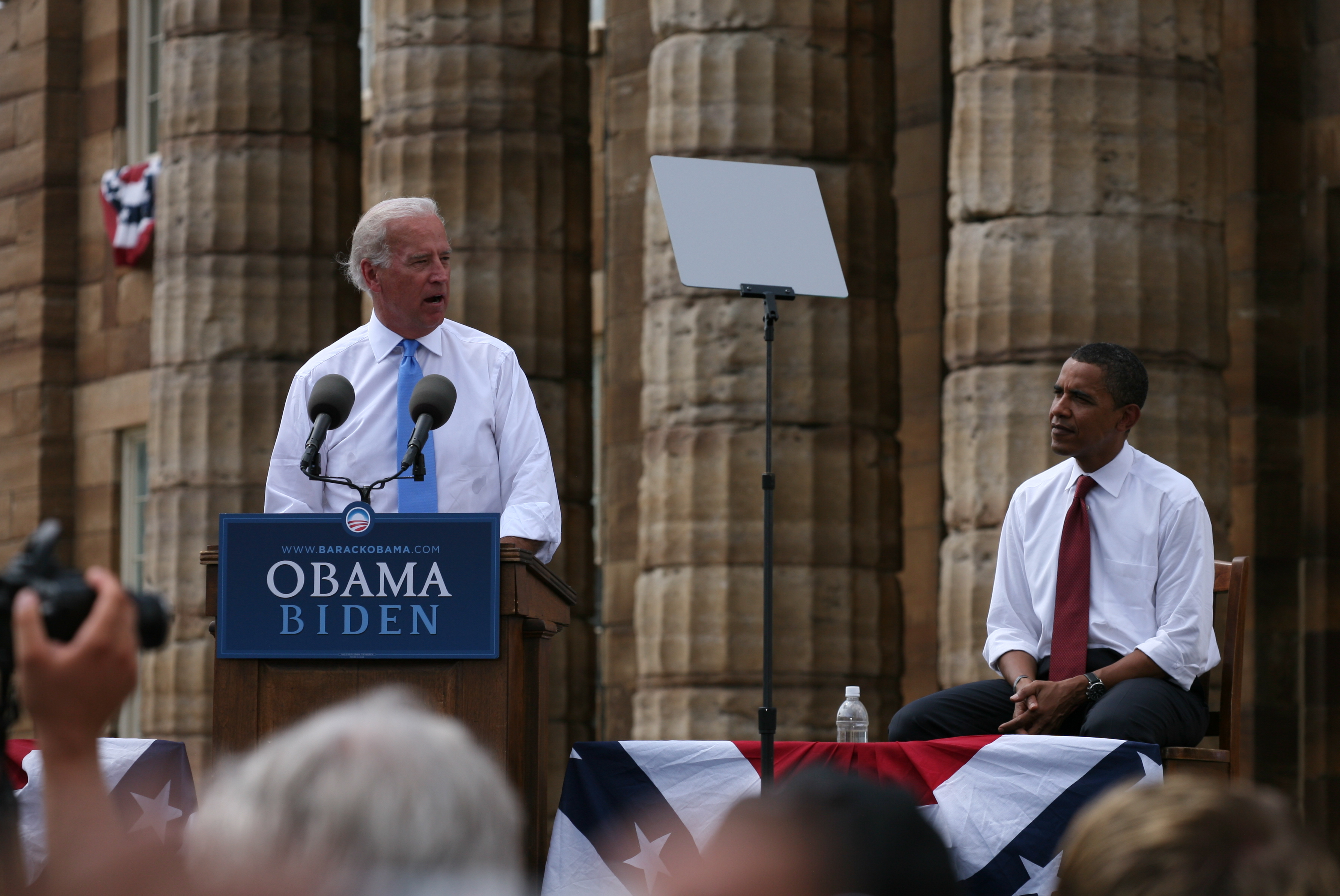 Joe Biden's first speech after the announcement of his vice presidential candidacy in Springfield, Illinois